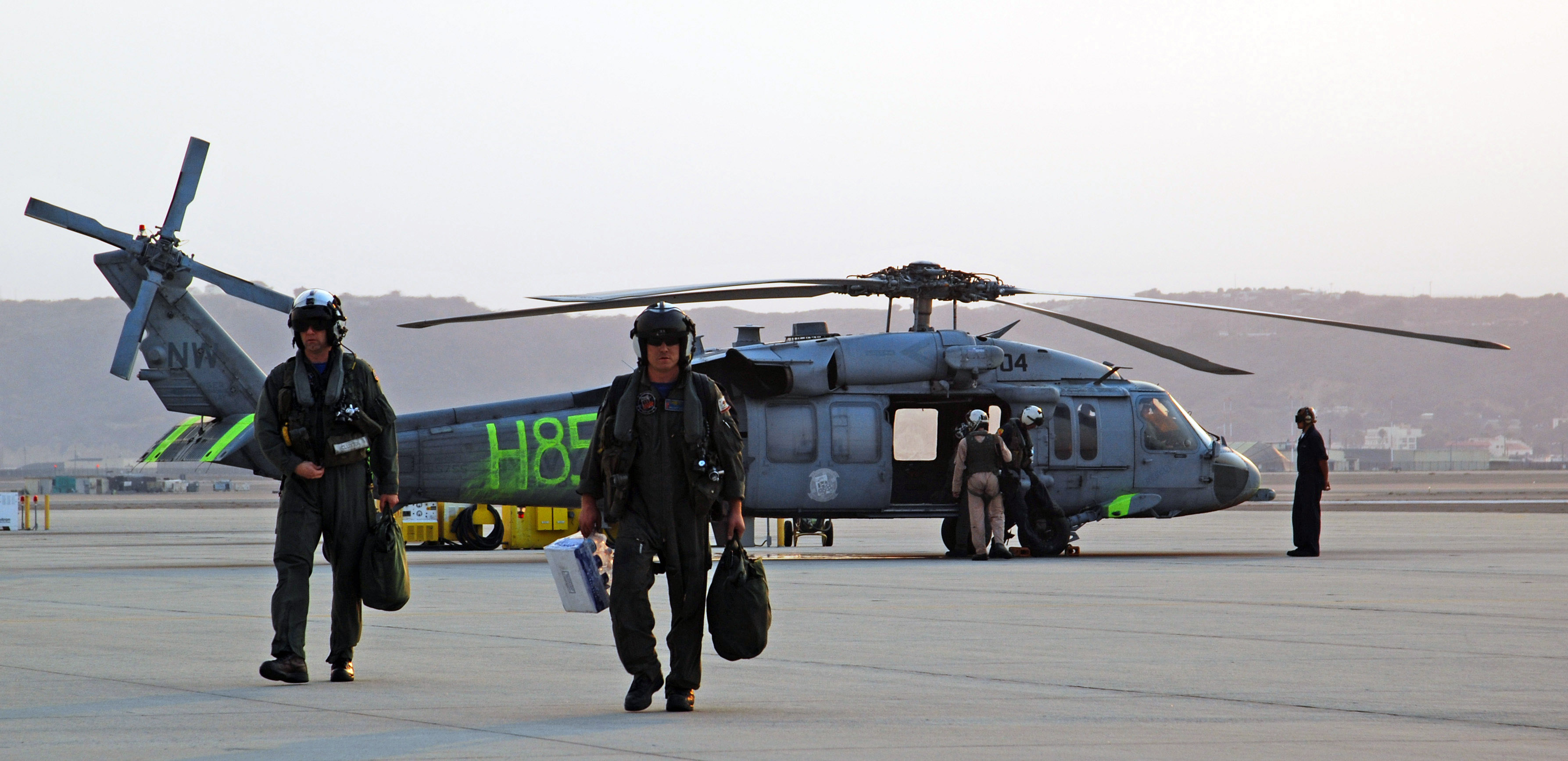 SAN DIEGO (Oct. 23, 2007) - Sailors attached to Helicopter Sea Combat Squadron (HSC) 85 disembark from aircraft number 85 after assisting in fire fighting efforts in the San Diego area. HSC-85 is the only Navy helicopter squadron in San Diego qualified to assist in the fire fighting effort. More than a quarter-million people were urged to flee their homes across Southern California as wildfires blown by fierce desert winds raced over the landscape with terrifying speed, destroying hundreds of structures, clogging highways, sending smoke and ash over a wide area. The numerous fires in San Diego County currently threaten no Navy facilities. The Navy is working with various agencies to aide in combating the fires and providing assistance to both military and civilians. U.S. Navy photo by Mass Communication Specialist 3rd Class Porter Anderson (RELEASED)